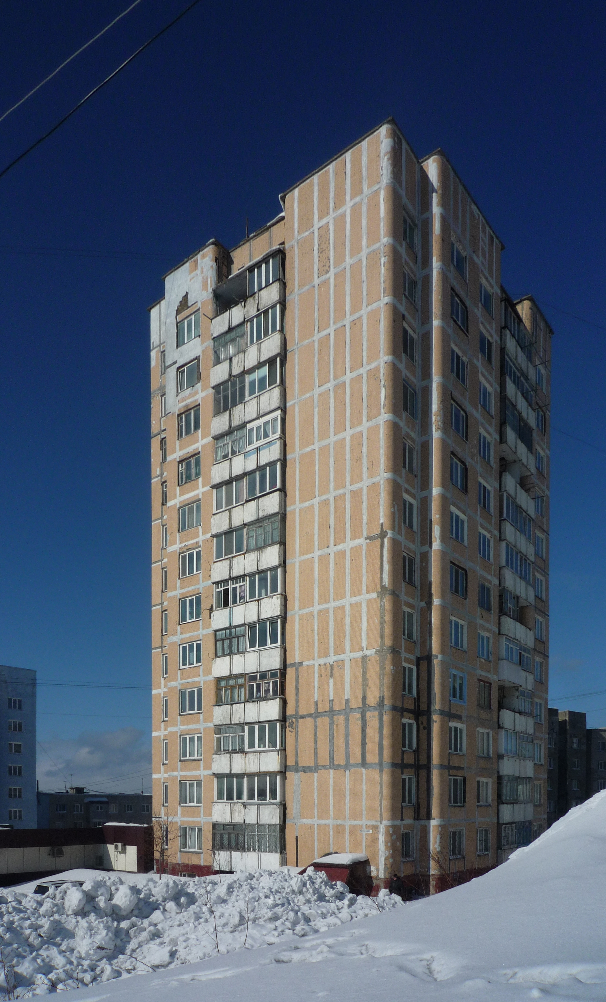 The most highest building of Kholmsk